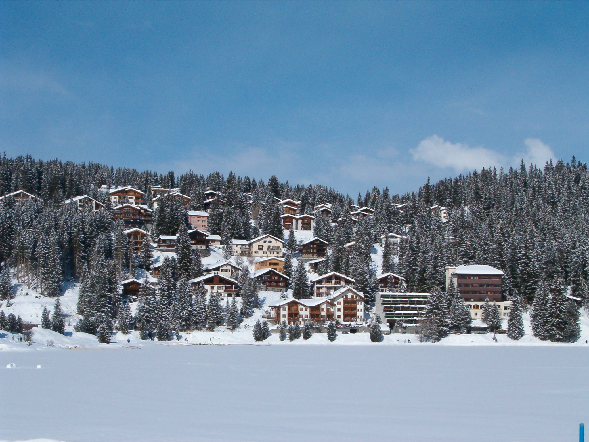 The Obersee in Arosa, Switzerland